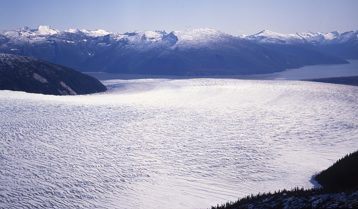 Aerial View of Taku Glacier looking towards terminus in Taku Inlet